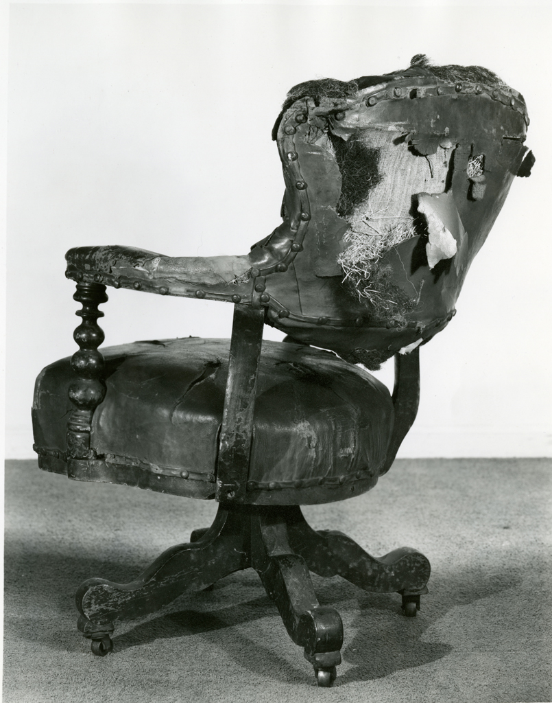 The chair used by Abraham Lincoln the day of his speech to the Cooper Union (1860). It was later displayed on stage in the Great Hall of the Cooper Union Museum for the Arts of Decoration. The Cooper Union Museum was transferred to the Smithsonian Institution July 1, 1968, and was renamed the Cooper-Hewitt Museum of Design. The chair is shown before it was reupholstered in 1949.